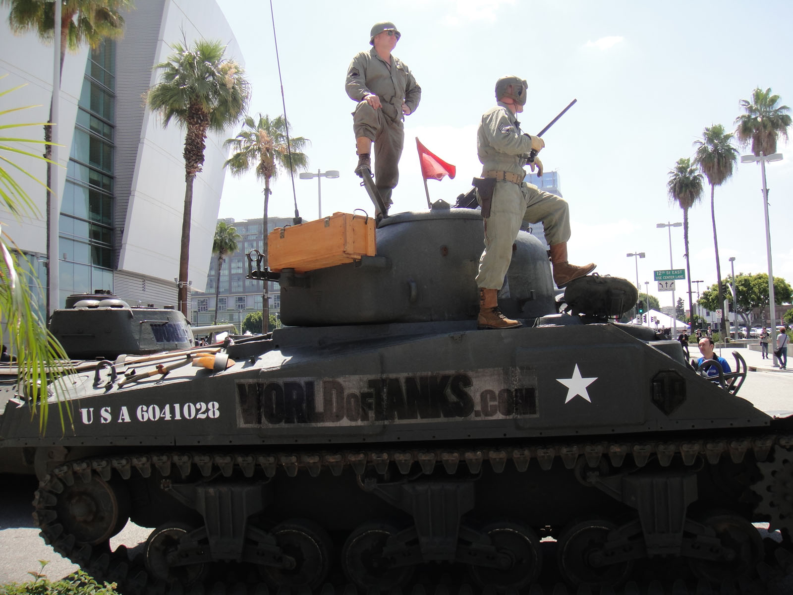 photo 2011 taken by Doug Kline If you're interested in higher resolution versions of my images, contact me via my profile page.